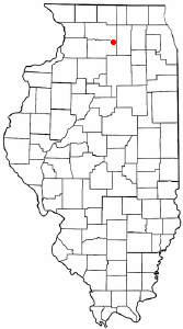 Category:Illinois city locator maps